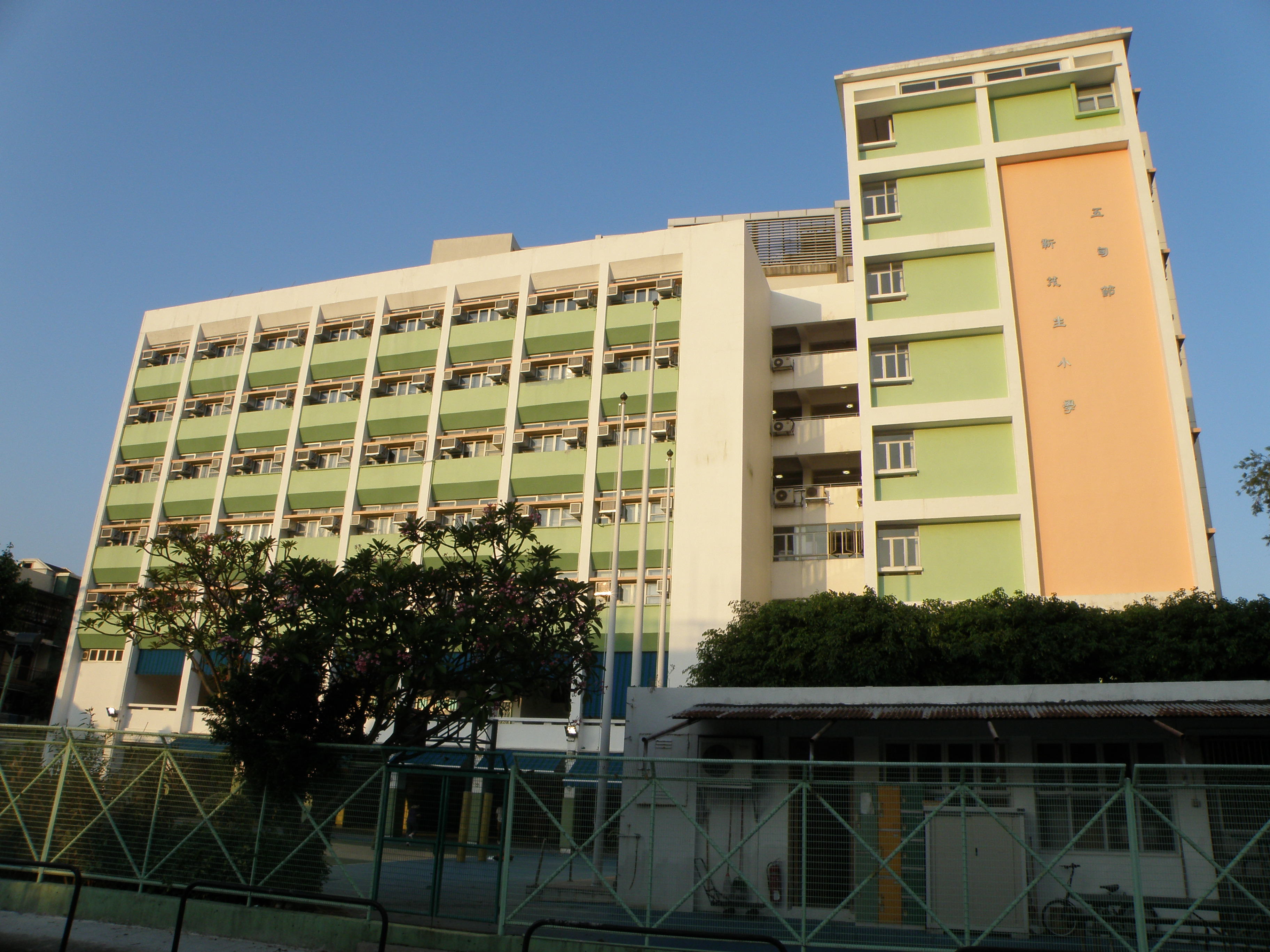 Pentecostal Gin Mao Sheng Primary School in Fanling, Hong Kong.